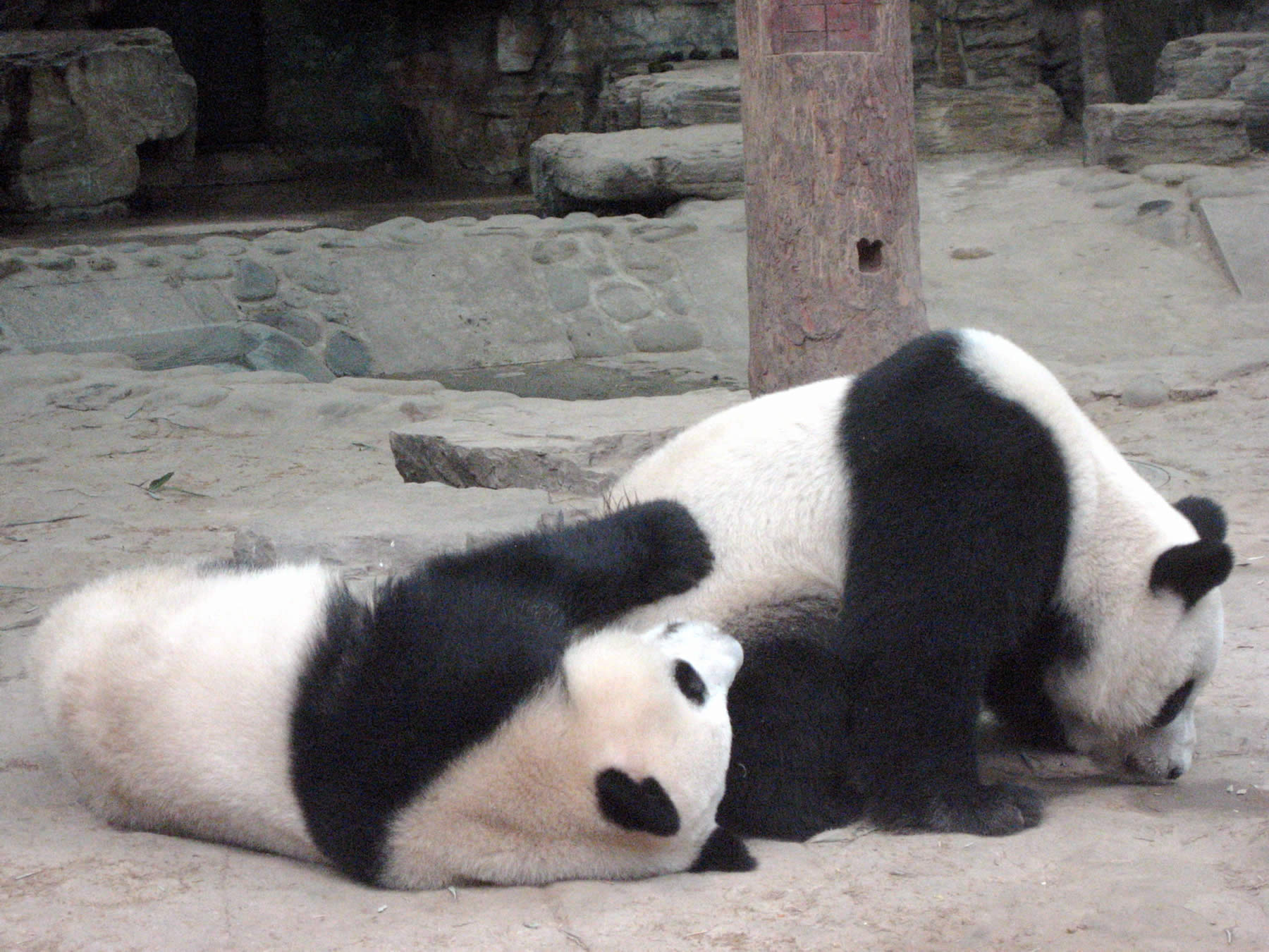 Panda bears cavorting the the Beijing Zoo.